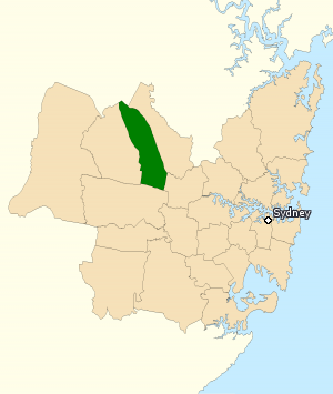 This image incorporates data that is: © Commonwealth of Australia (Australian Electoral Commission) 2009 Division of Greenway 2010